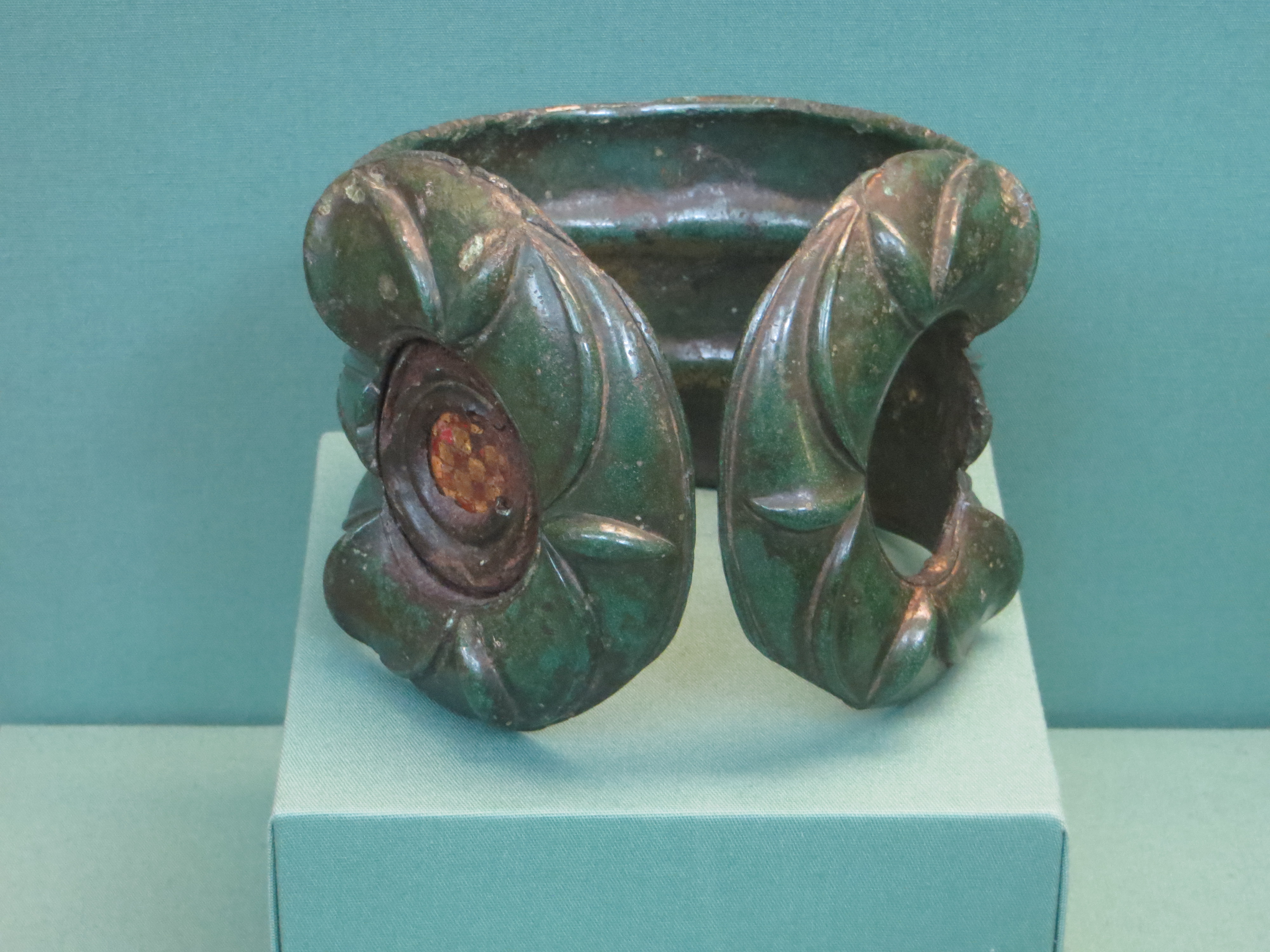 Bronze Armlet from Scotland in the British Museum. One of a pair.